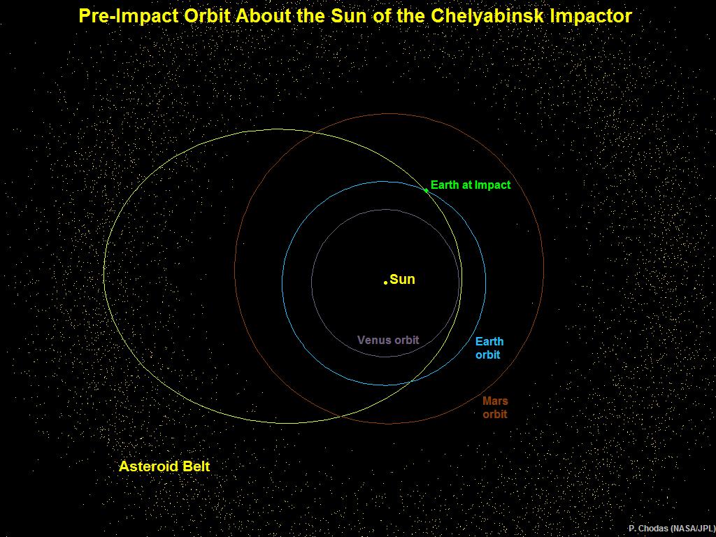 Heliocentric orbit of asteroid that impacted near Chelyabinsk Russia The diagram shows the orbit of the impactor about the Sun. The orbit reaches from the asteroid belt at its farthest from the Sun to near the orbit of Venus at its closest to the Sun. The impactor had likely been following this orbit for many thousands of years, crossing the Earth's orbit every time on its outbound leg.